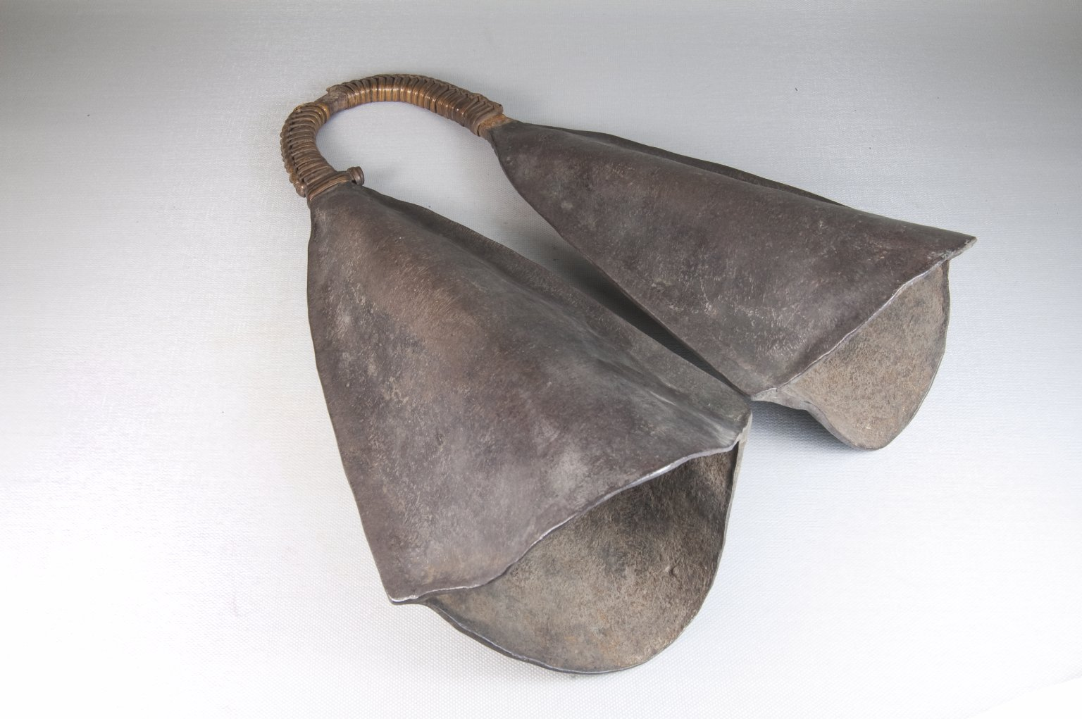 Double iron clapperless bell with looped handle. Iron handle is sheathed in rattan. CONDITION: Good.